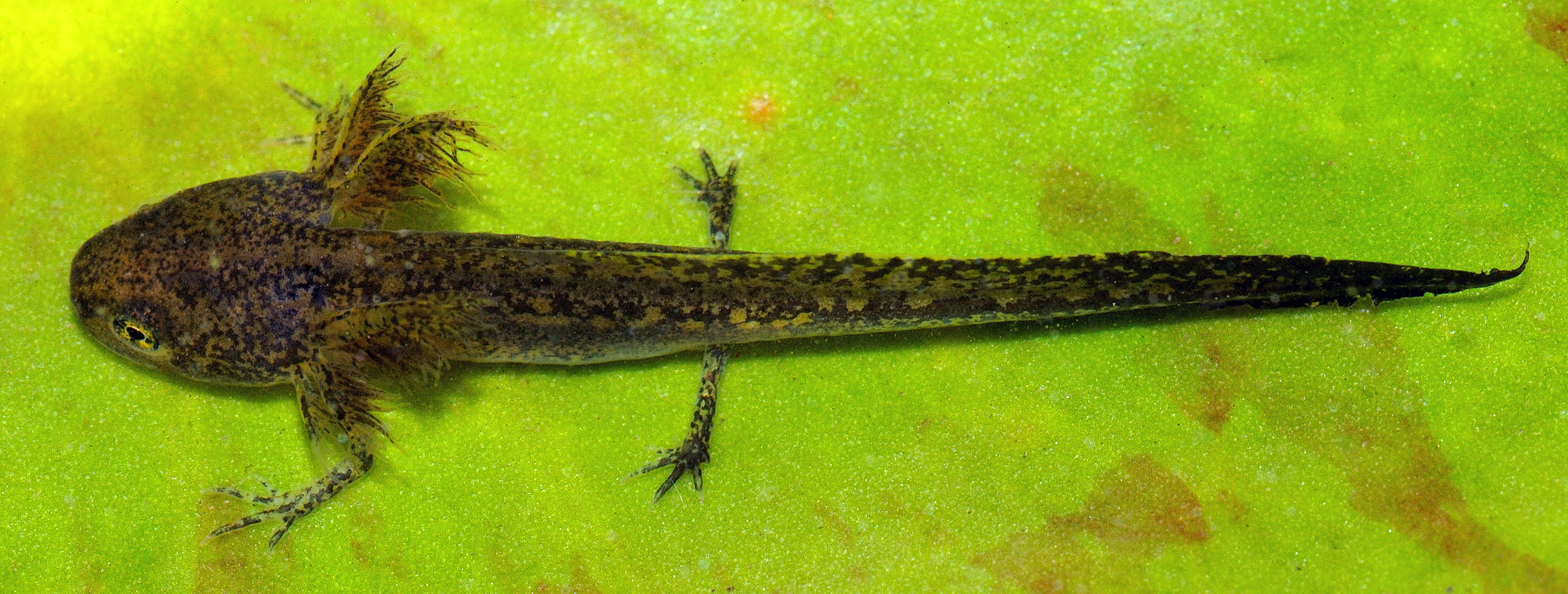 This image shows an about 1.5" (4 cm) large newt larva of the species Alpine newt, Ichthyosaura alpestris (formerly: Triturus alpestris), just below the water surface.